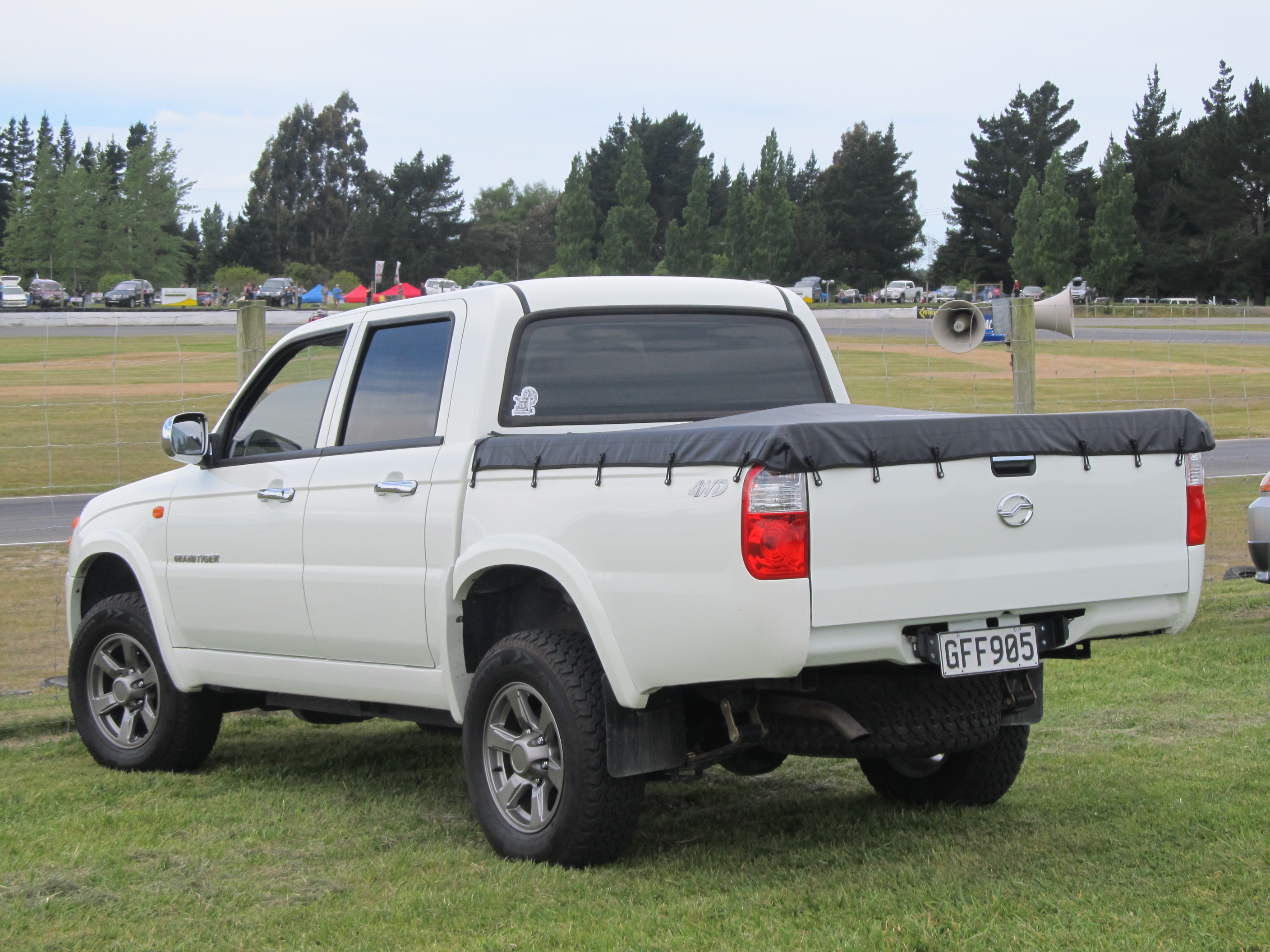 A bit of a mouthful! I spotted this obscure Chinese ute nearly two years ago at the Wigram Revival, but had no idea what it was until I dug it out of my archive folder. This is the only ZX Auto vehicle I can recall seeing.